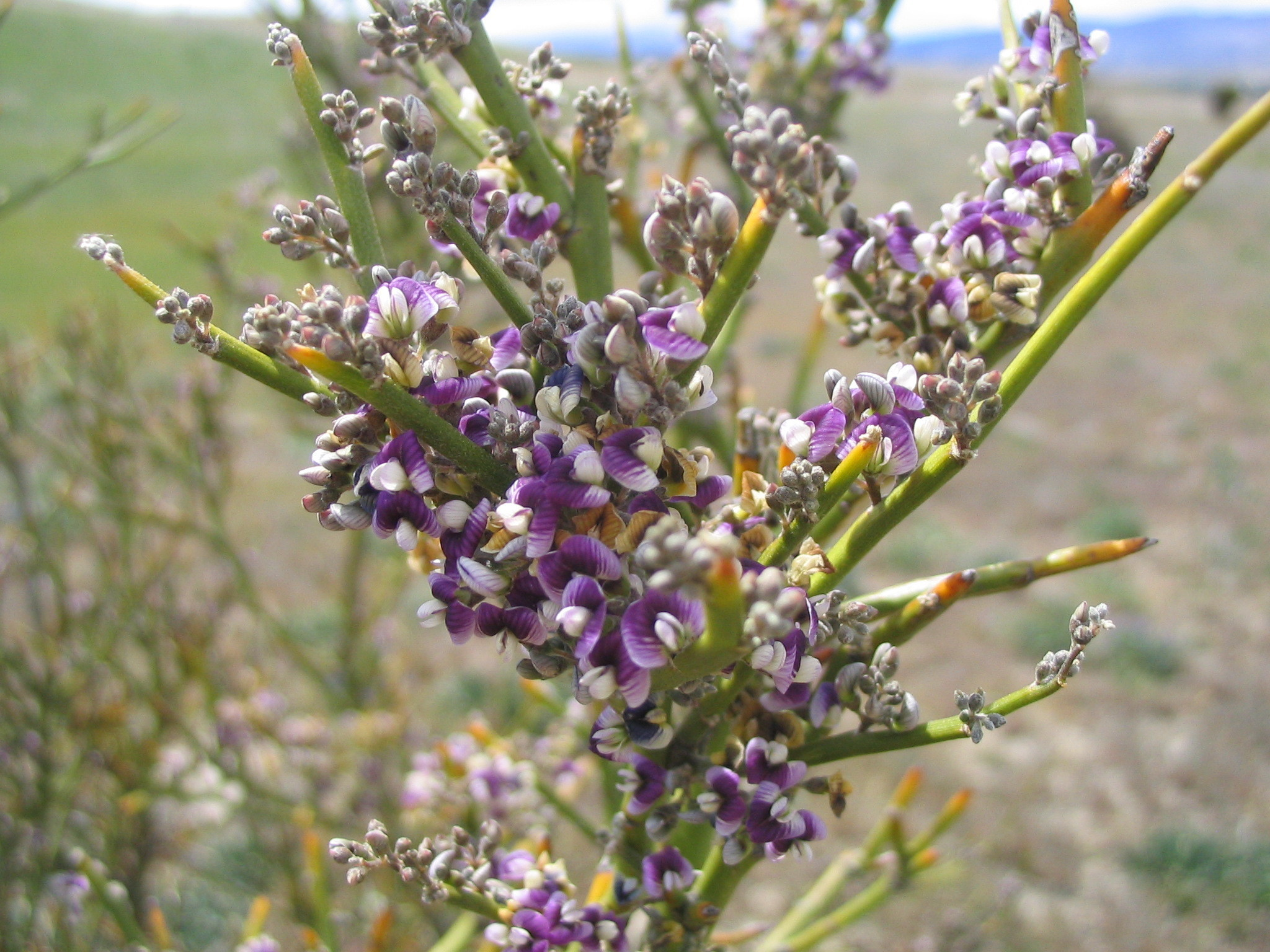 Carmichaelia petriei (Q15528103) flowering by John Barkla via iNaturalist